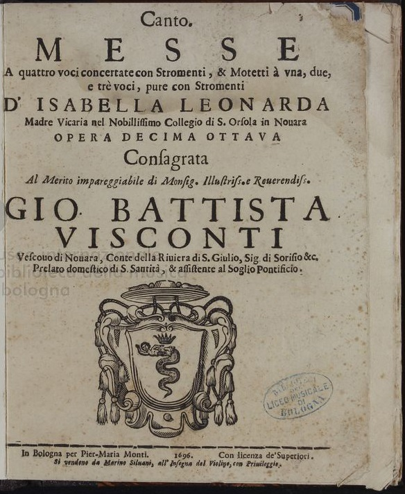 Leonarda Isabella, Op 18, title page, published 1696 in Bologna, file digitized and published by Museo internazionale e biblioteca della musica.